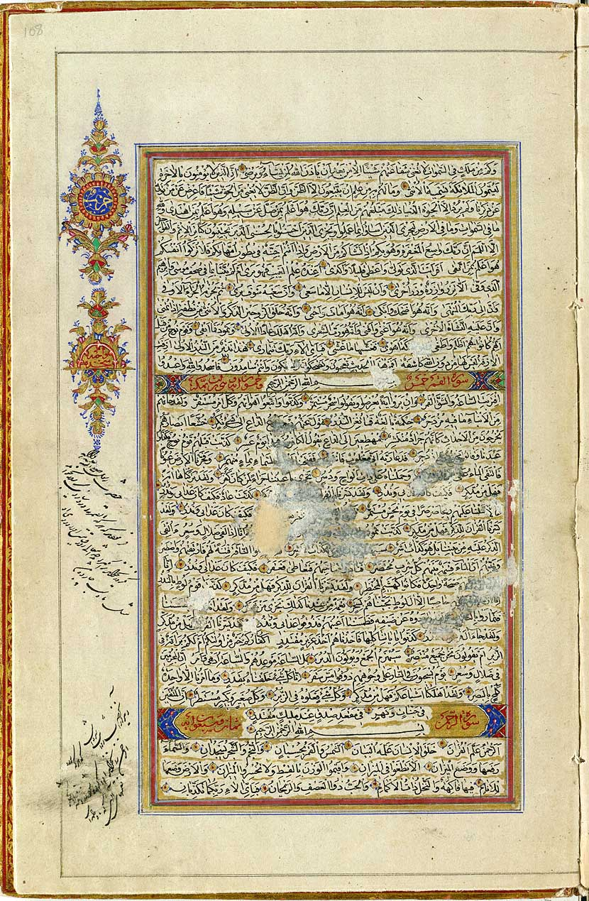 Scan of a Qur'an from the year 1874